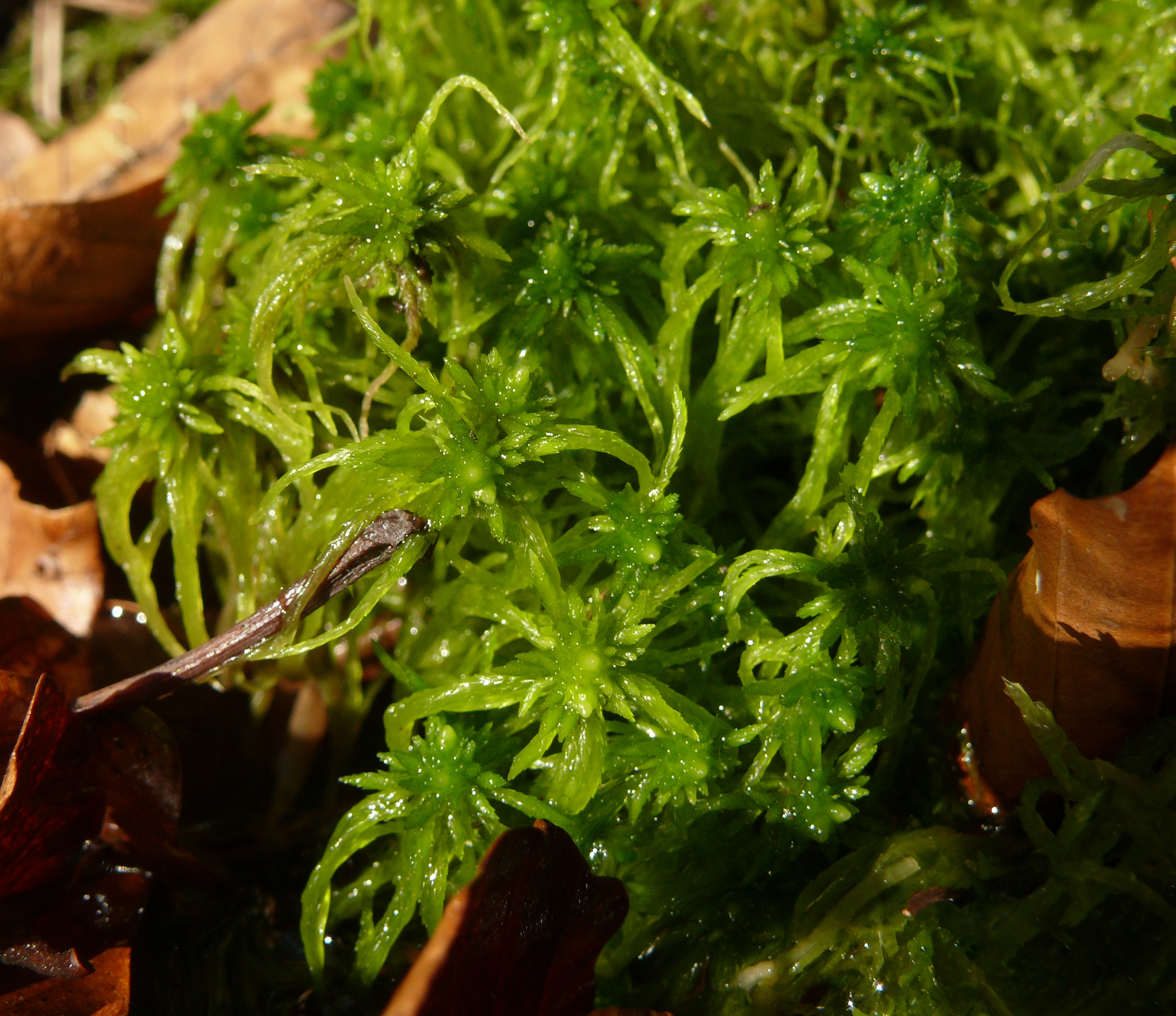 Sphagnum fimbriatum, Hohenlohe, Germany